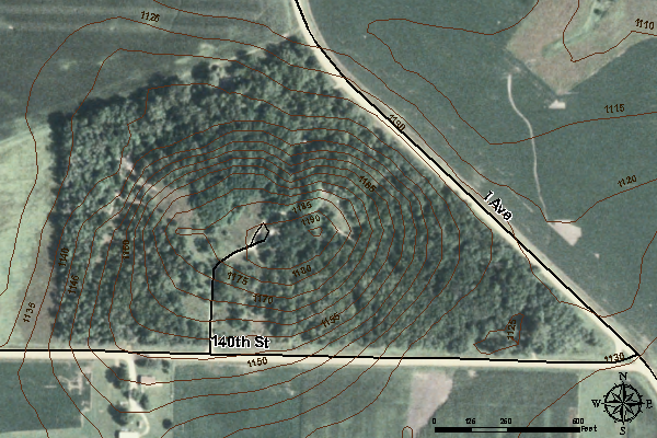 2009 Aerial photograph of Pilot Mound State Forest in Iowa.